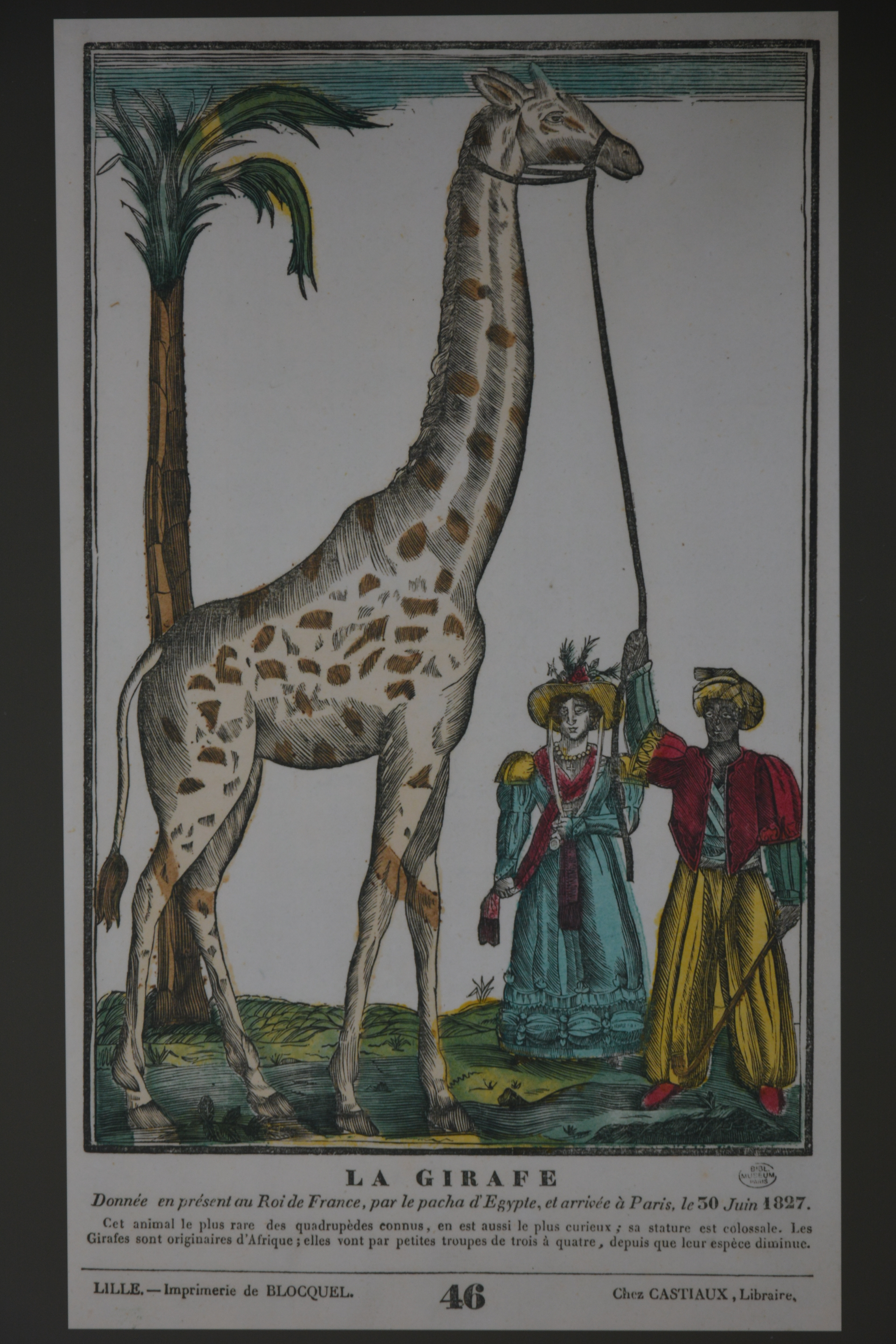 Picture of girafe offered in 1827 by the Pasha of Egypt to the King of France, Charles X.